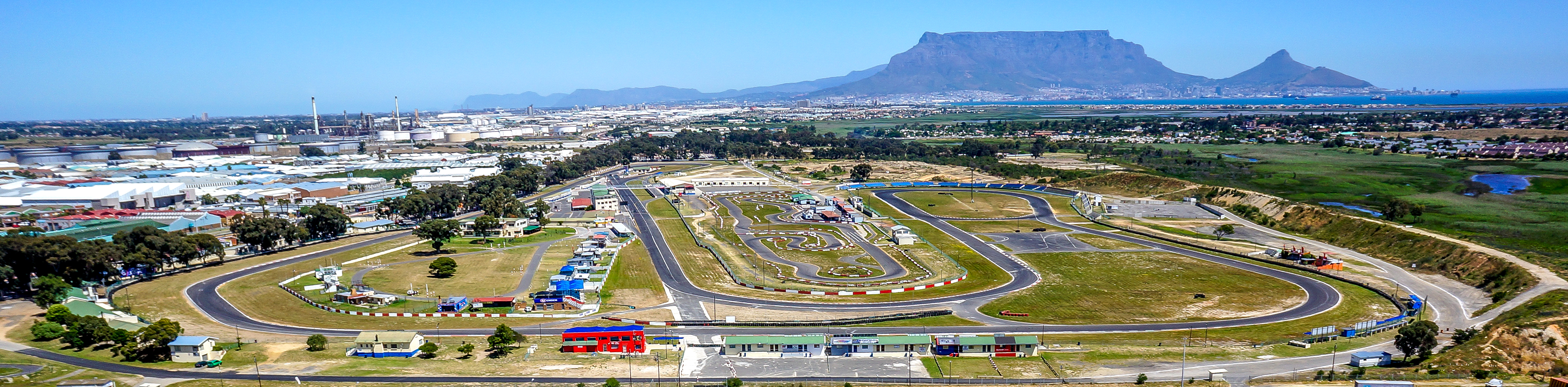 Speed freaks tear up the tar at Cape Town’s Killarney Race Track. The Killarney Race Track is in Tableview, about 30km (18 mi) from the Cape Town city centre. It was first used for racing in 1947 and the track was rebuilt in 1959-1960 to conform to the standard required for the 1500cc Formula One cars of the time. The track is the home of Fantastic Racing, a company which offers the opportunity to learn how to handle a super-charged Reynard single-seater race car around the circuit.